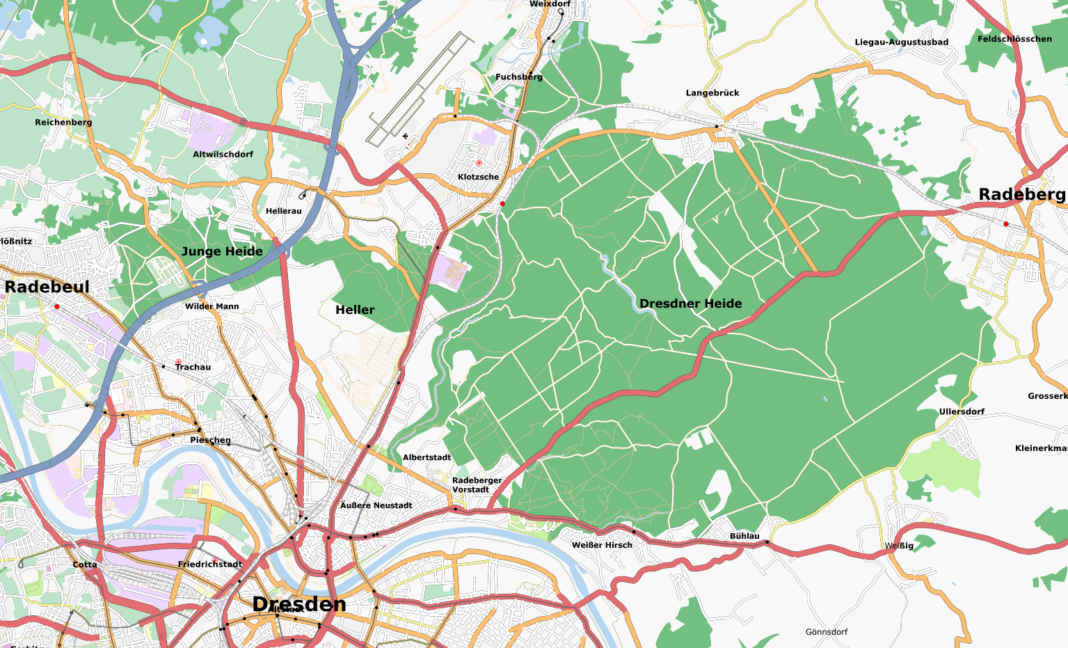 Map of the Dresdner Heide and the northern parts of Dresden